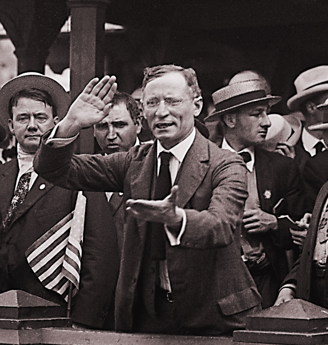 Meyer London, American Socialist Congressman, speaking at a rally of striking Brooklyn streetcar workers, 1916.